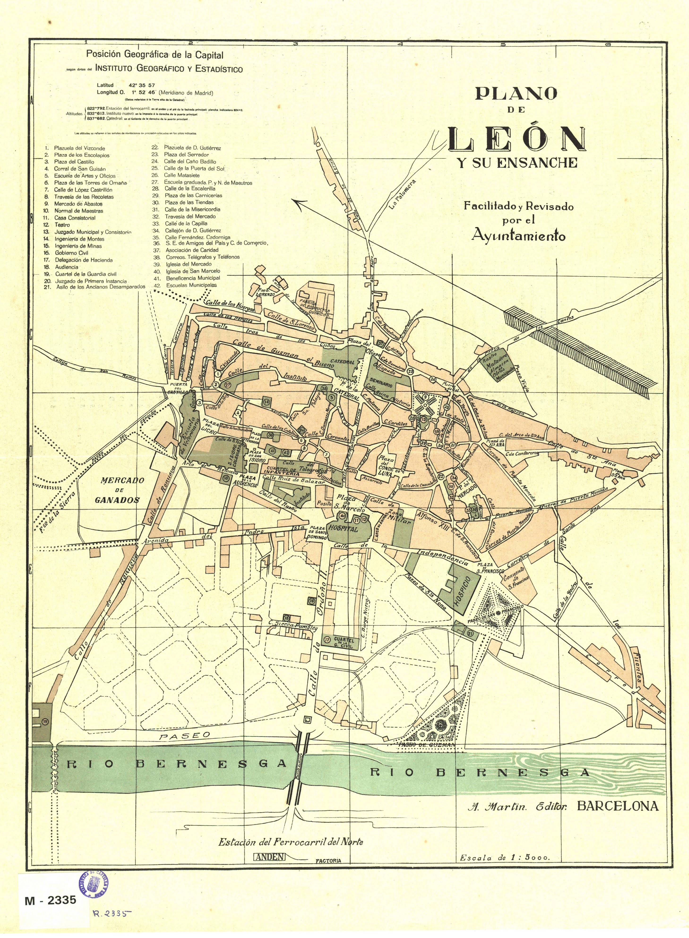 Plano de León y su ensanche [Material cartográfico] / facilitado y revisado por el Ayuntamiento Inserta: relación de lugares de interés. -- Al verso: nomenclator